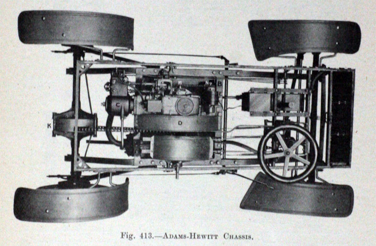 Chassis of British-built Adams-Hewitt 10 HP single cylinder automobile (1906), showing transverse mounted, mid engine with chain drive to rear axle.